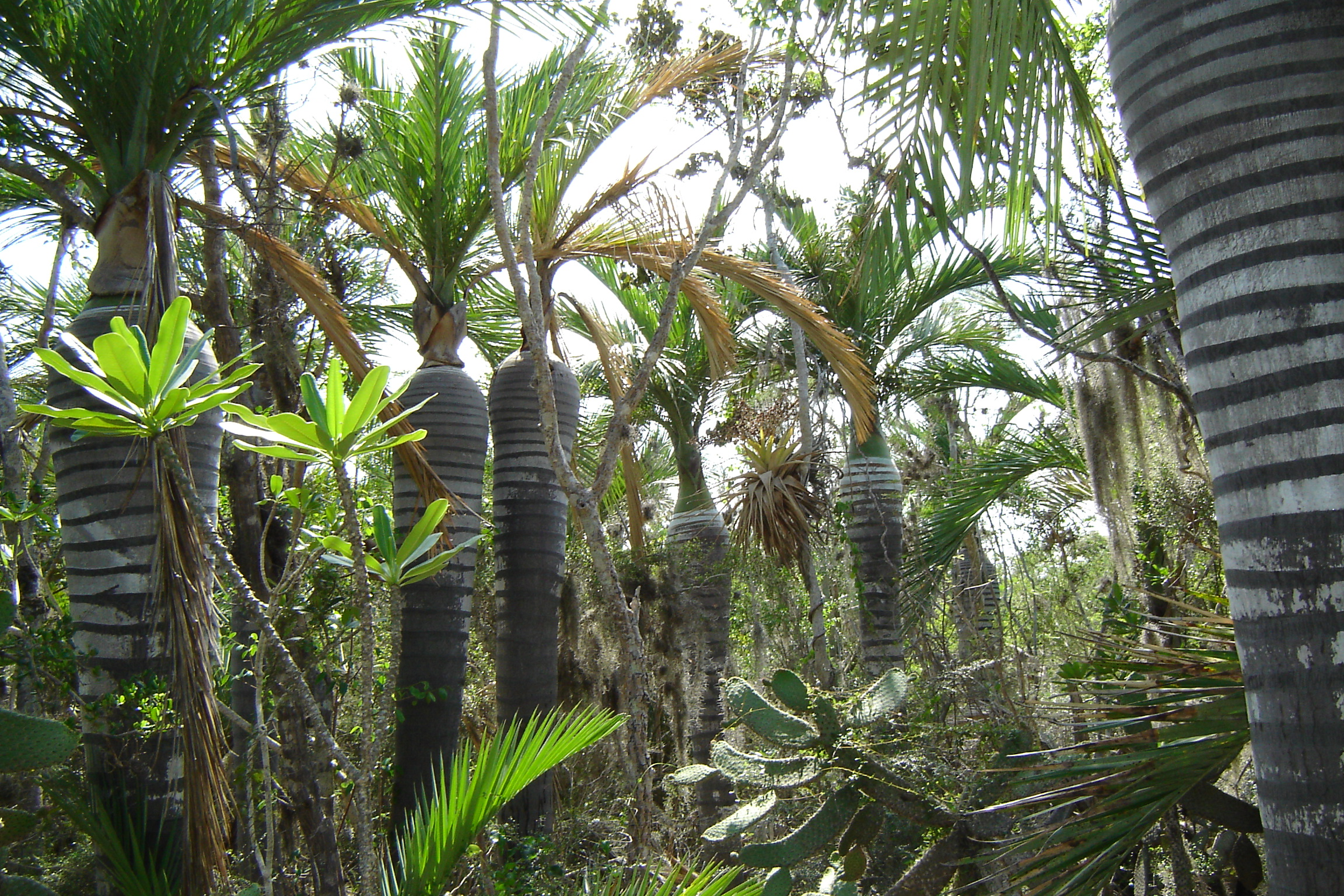 Forest of Pseudophoenix ekmanii near Oviedo, Dominican Republic